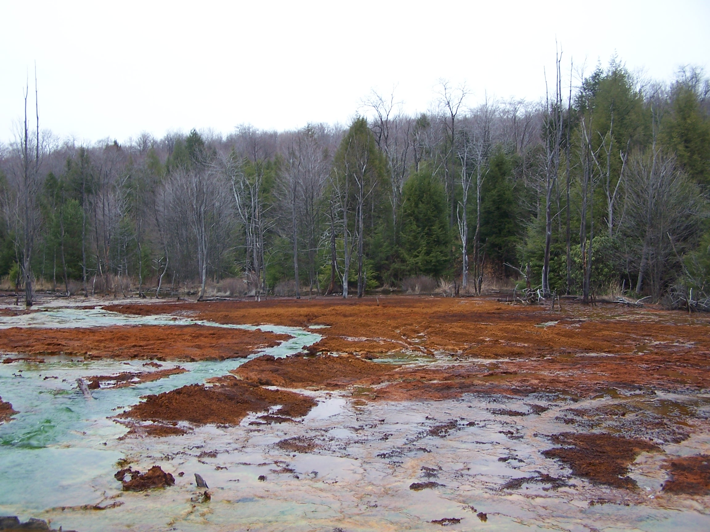 Area affected by Hughes bore hole